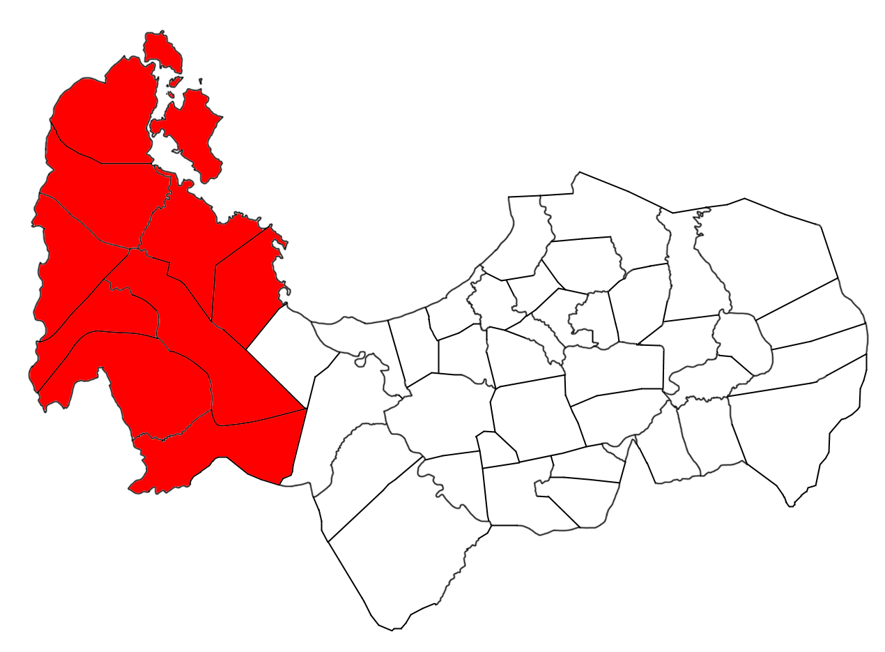 a 1d district map